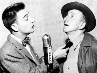 Durante-Moore Show promo photo